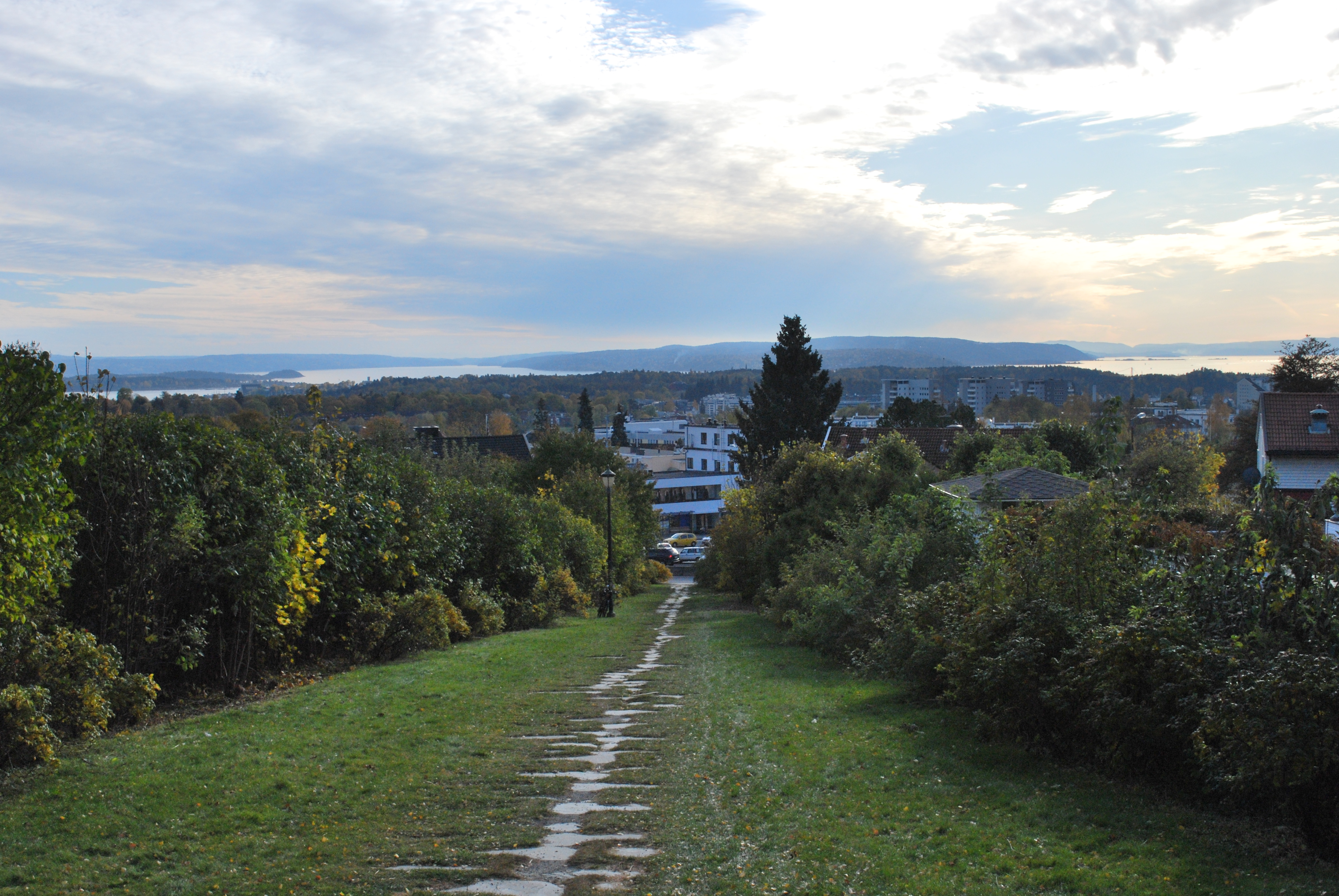 "Turvei" (park trail) no. A5 north of Smestadkrysset, Oslo